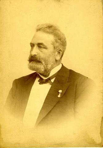 Portrait of Christian Wilhelm Rask Licht